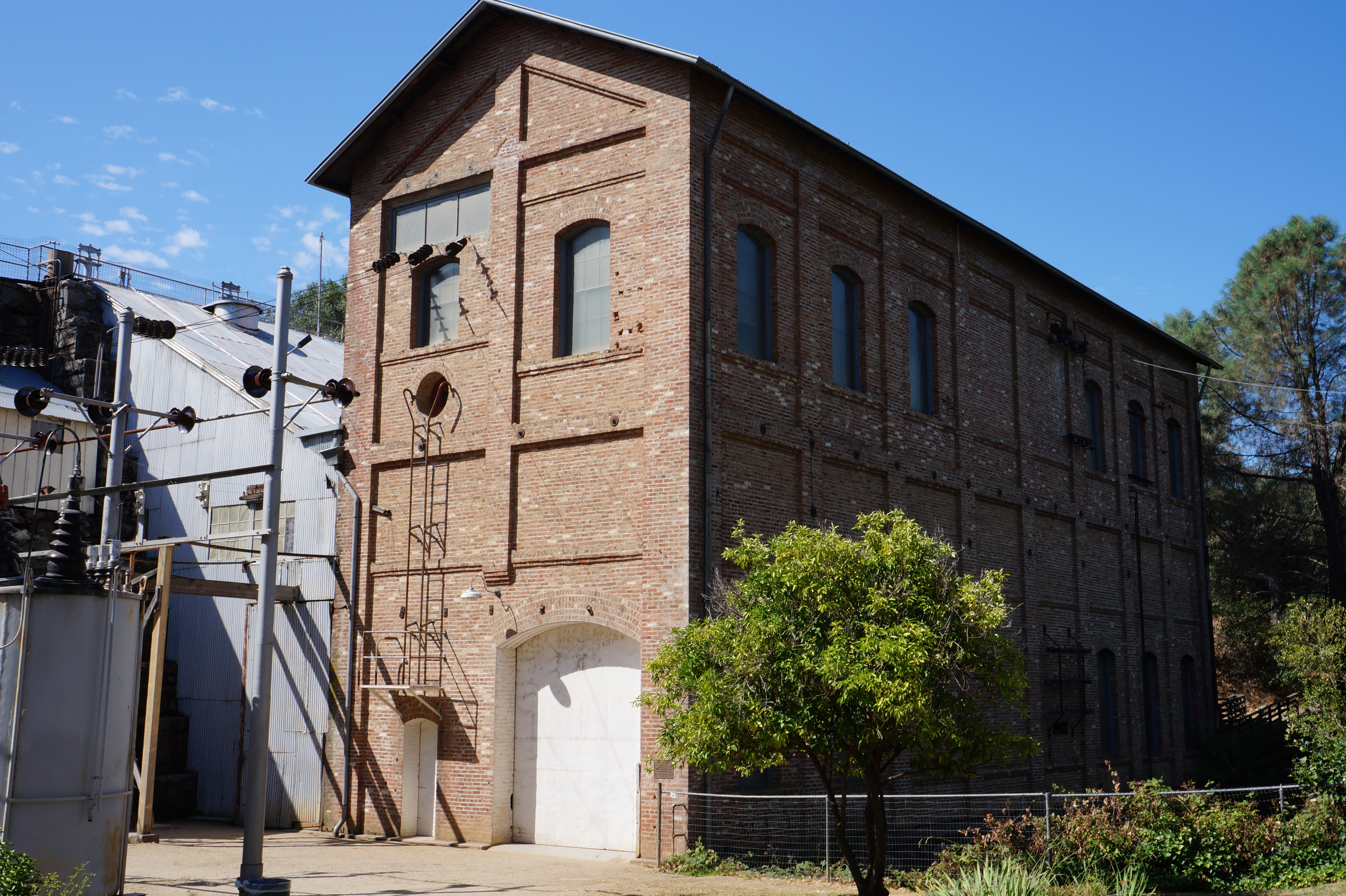 Photograph of the decommisioned Folsom Powerhouse in Folsom, California